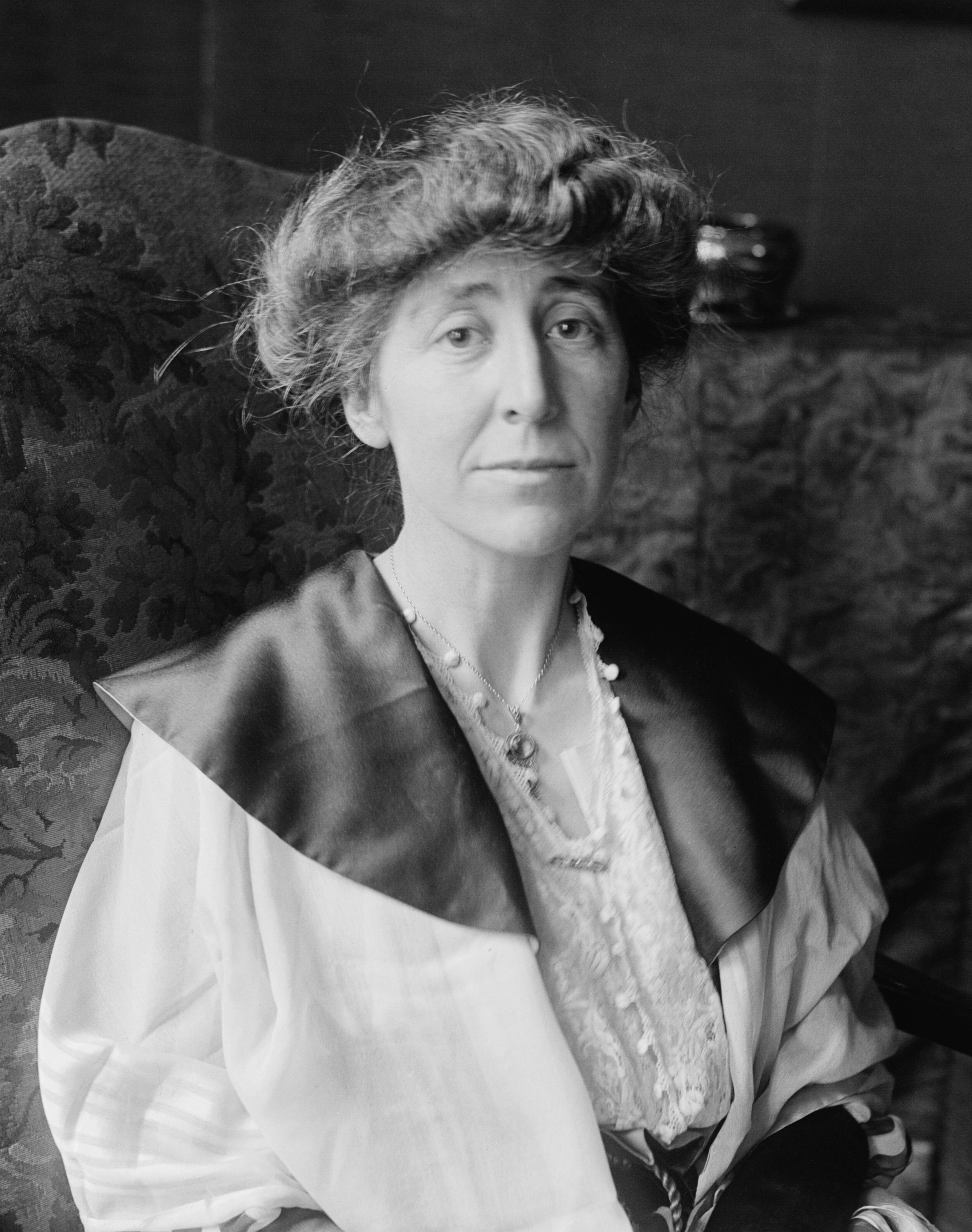 Jeannette Pickering Rankin (1880-1973), a member of the United States House of Representatives who was elected in 1916 as the first woman to serve in the U.S. Congress. Glass negative 5 x 7 in. or smaller.